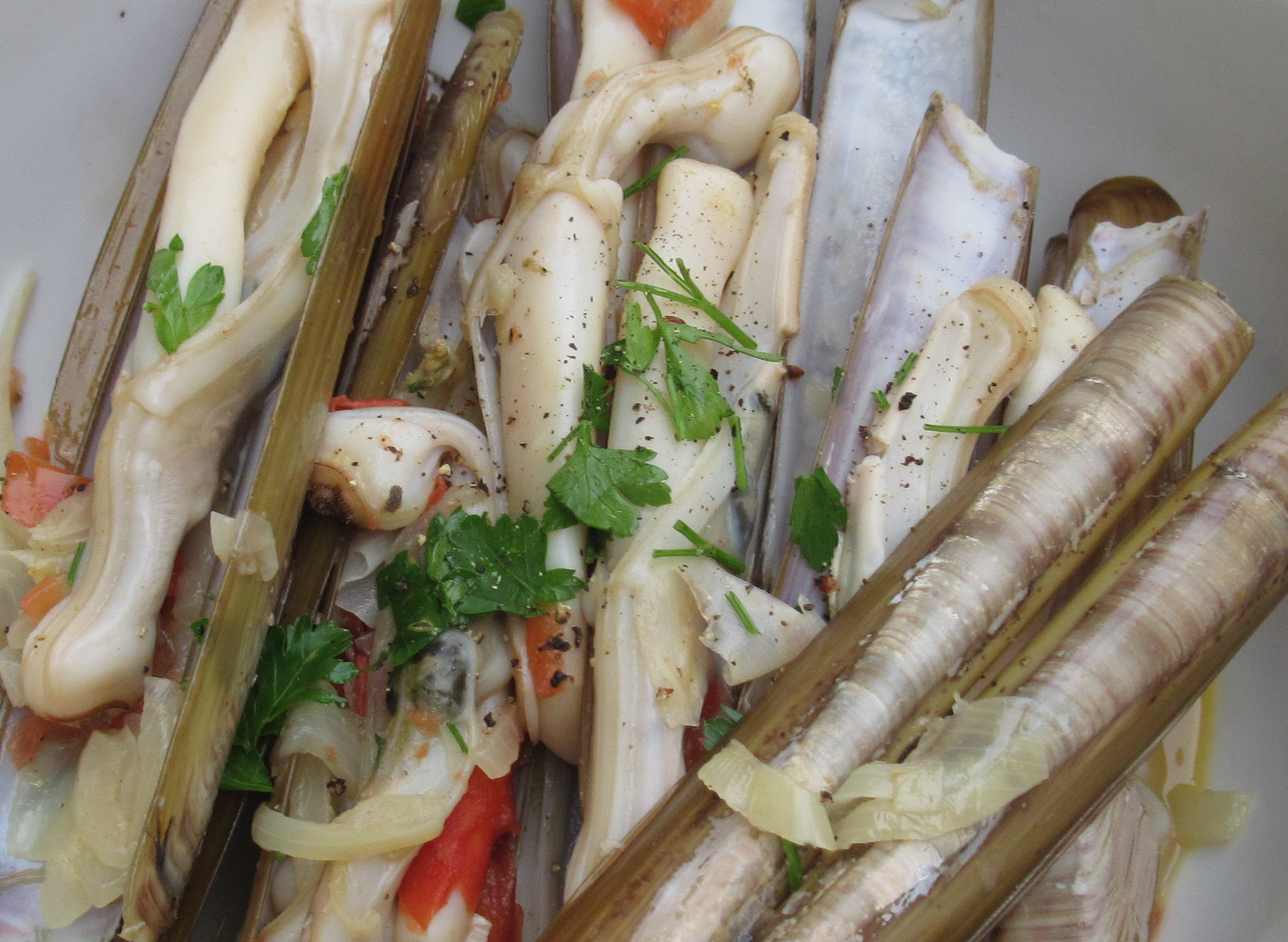 Razor fish dish